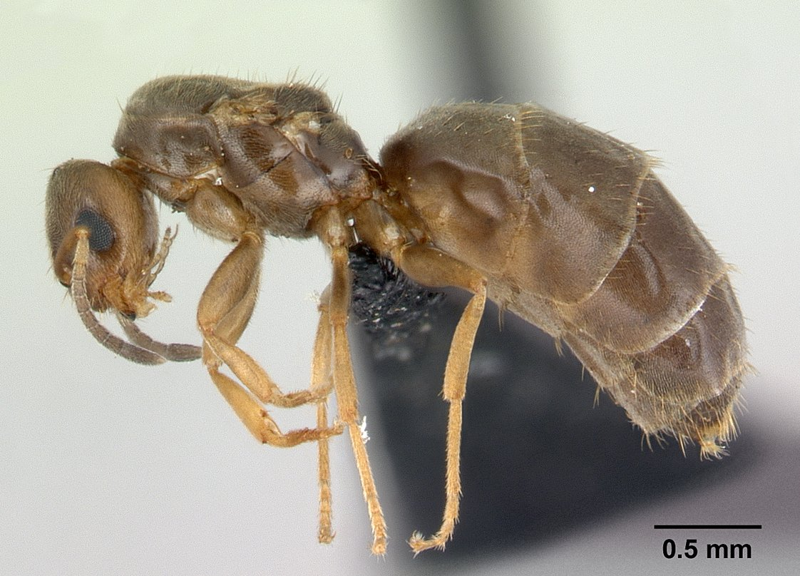 Profile view of ant Brachymyrmex cordemoyi specimen casent0125130.